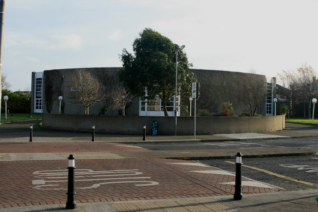 Church of St. Laurence O'Toole, Baldoyle, Co. Dublin., near to Kilbarrack, Baile Duill and Sutton, Dublin, Ireland. St. Lawrence O'Toole, (1128 to 1180), was the first Irish-born Bishop of Dublin, being consecrated in 1162. Link